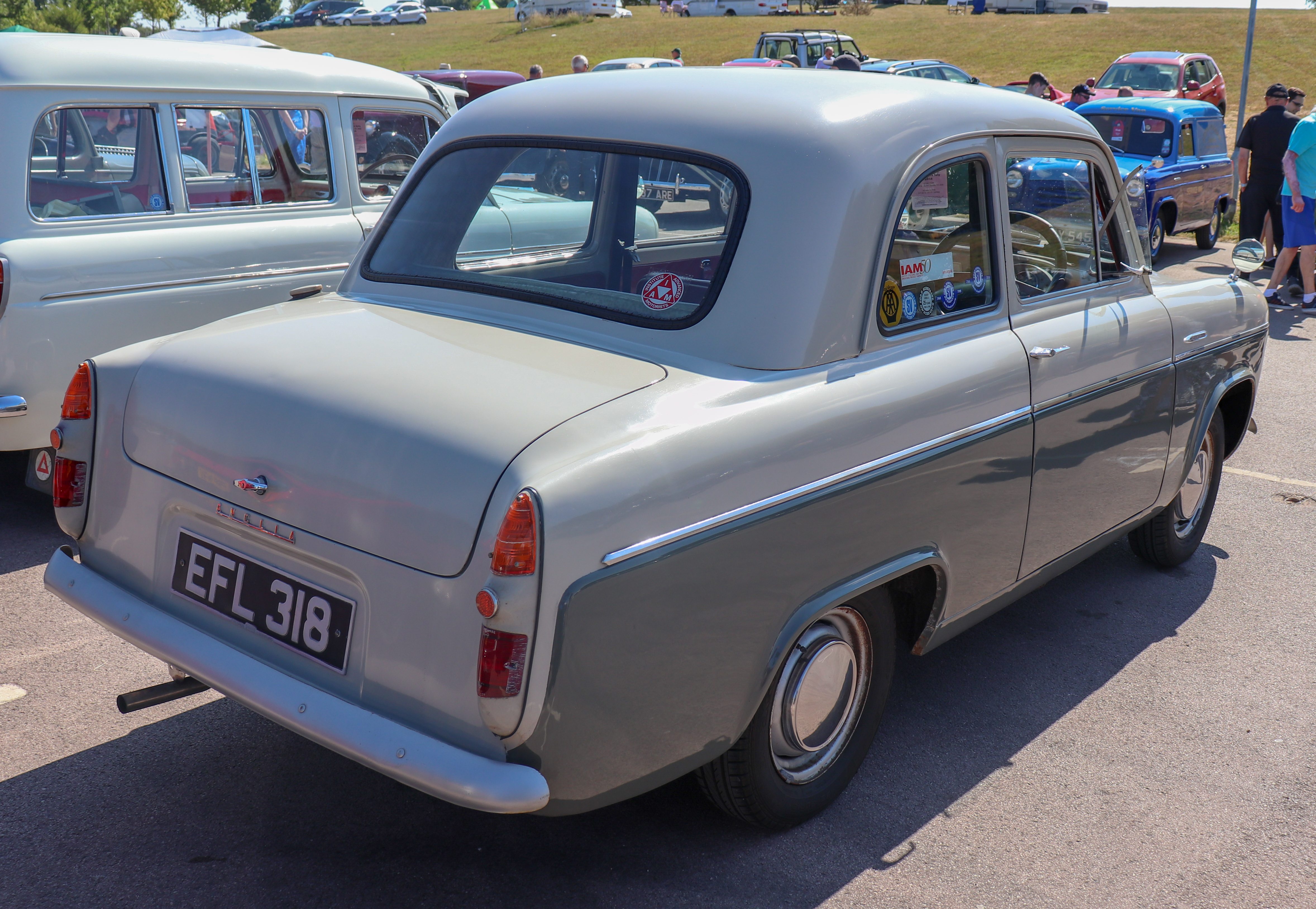 1956 Ford Anglia 100E 1.2 Rear Taken at the British Motor Museum Old Ford Rally 2018, Gaydon